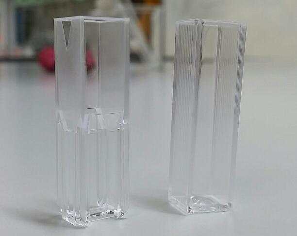 sizes of 1mL & 3mL cuvettes